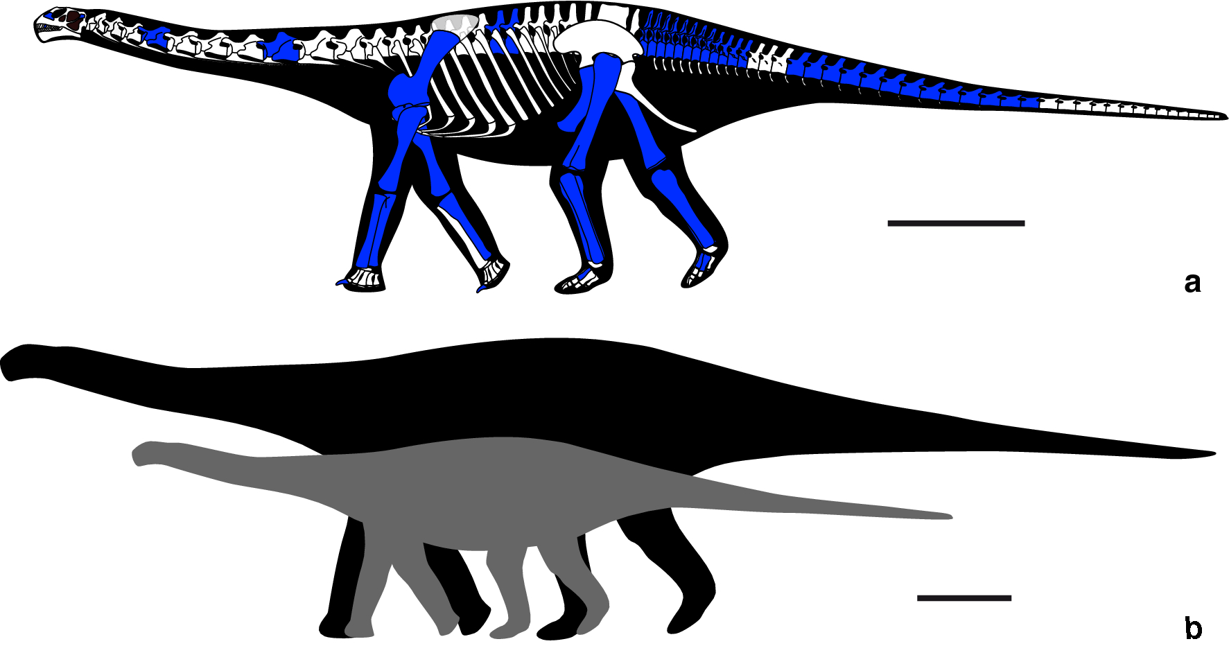 a Skeletal reconstruction of A. greppini. Elements preserved in the material and therefore providing information for the skeletal reconstruction are marked in blue. Because much information is missing from the incomplete skeletal material, the dorsal vertebrae, the proportions and morphology of the cervical vertebrae and the skull were modified from Camarasaurus. b Scaled silhouette drawings of Cetiosauriscus stewarti (in black) and A. greppini (in grey) demonstrating the significant size difference between the two taxa. Scale bar is 1 m